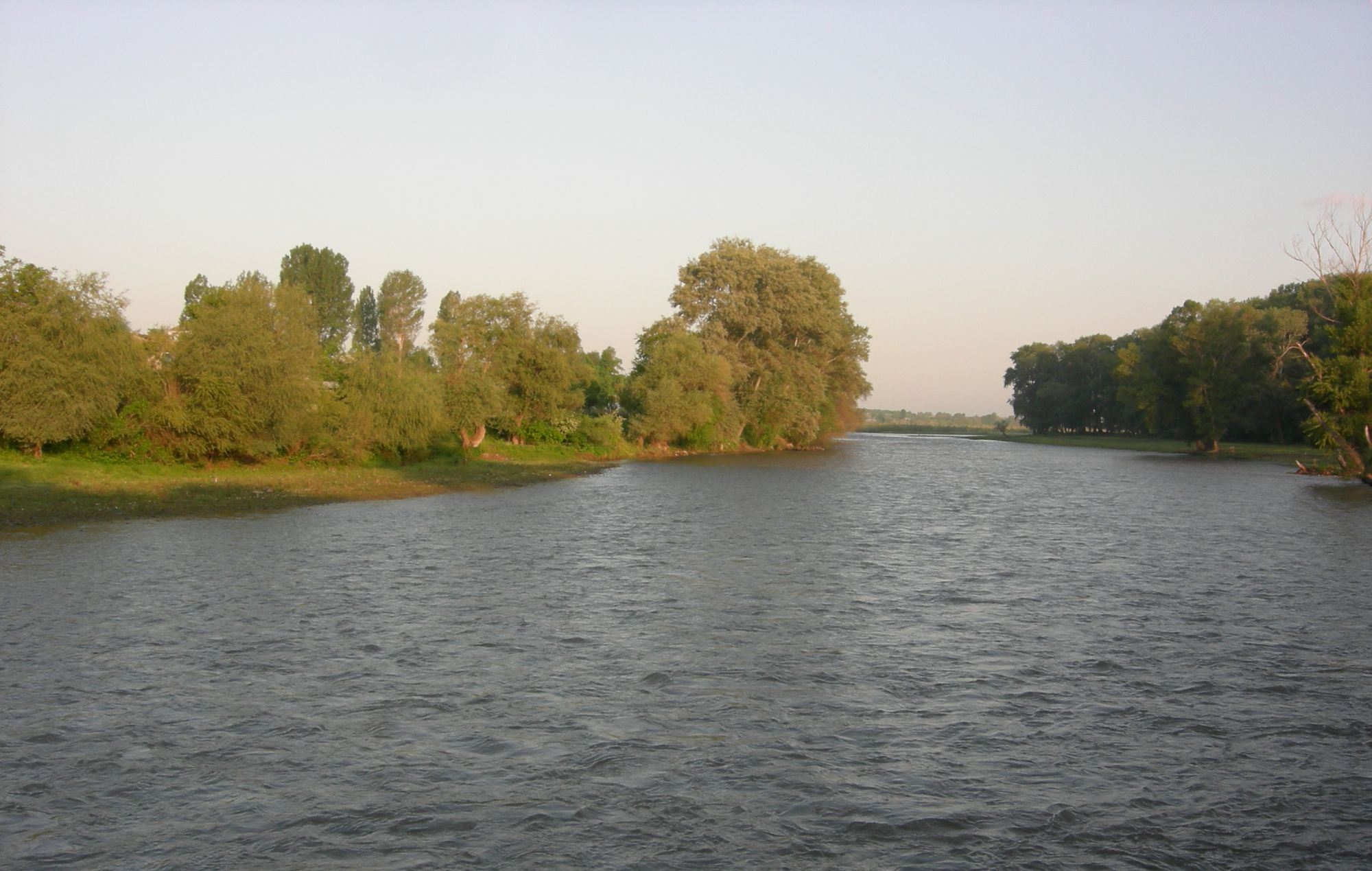 Khrami River near Kirach Muganlo (კირაჩ მუგანლო), Georgia, not far from border to Azerbaijan